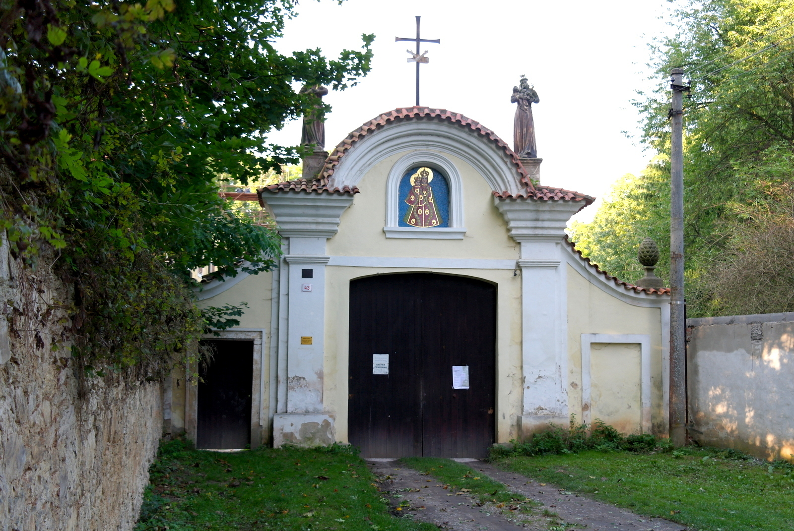 Monastery of St. Francis in Hájek, 43 Hájek, Hajek (Červený Újezd), Prague-West District. Entrance gate.